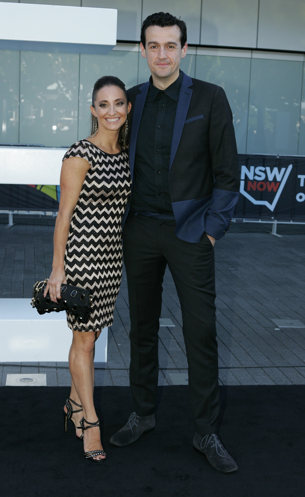 Lyn Moran and Sam Moran at the Aria Awards 2013 in Sydney Australia